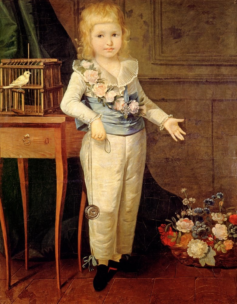 « Louis XVII, wrote the Baron Hue, inherited a heavenly countenance, a precocious mind, a compassionate heart and the seeds of the greatest qualities. » Louis Charles of France, Duke of Normandie and after the early death of his elder brother Louis Joseph Xavier Dauphin of France and after the death of his father Louis XVI. of France King Louis XVII of France